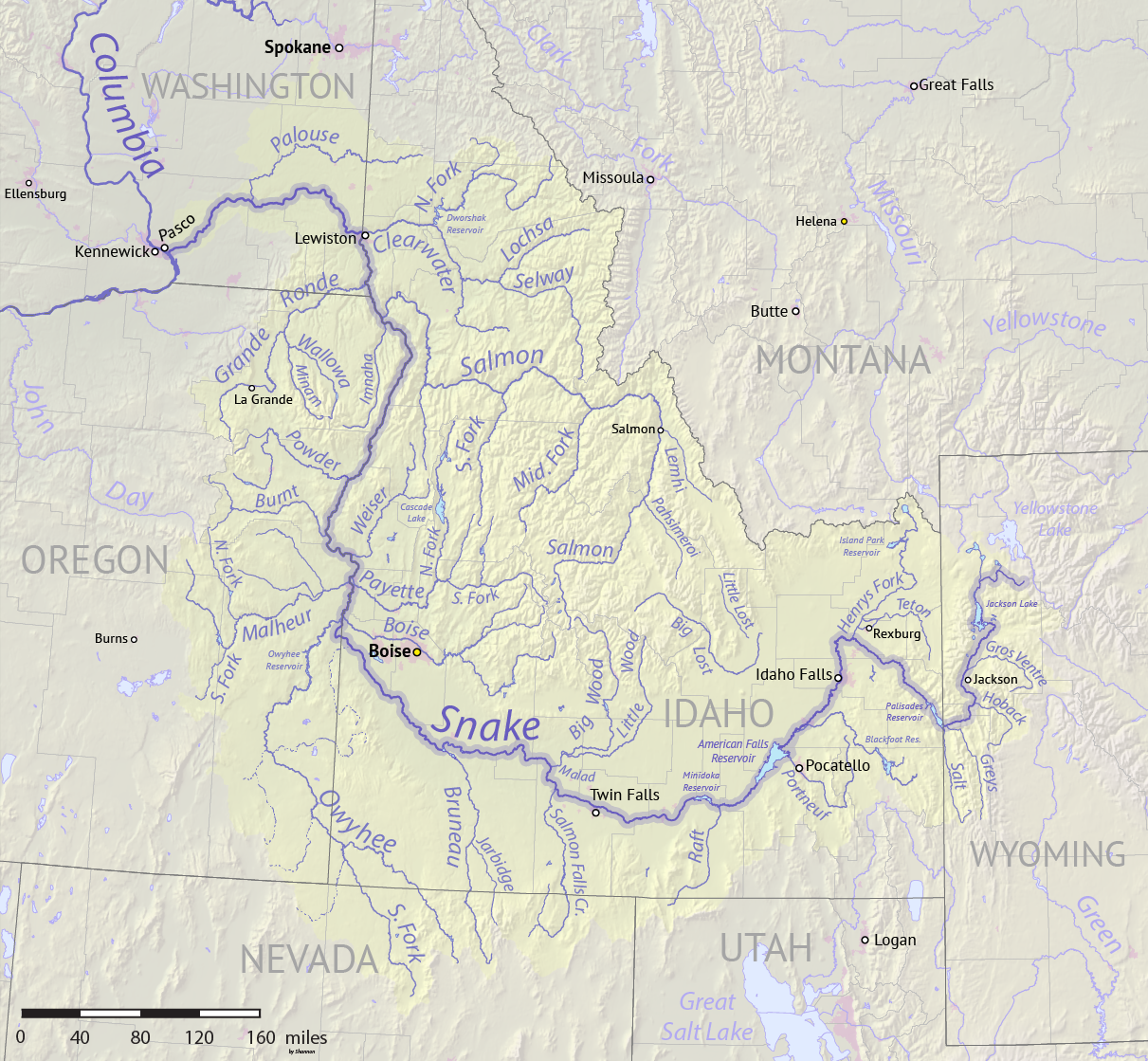 Map of the Snake River watershed, USA. Intended to replace older File:SnakeRiverNicerMap.jpg. Created using public domain USGS National Map data.